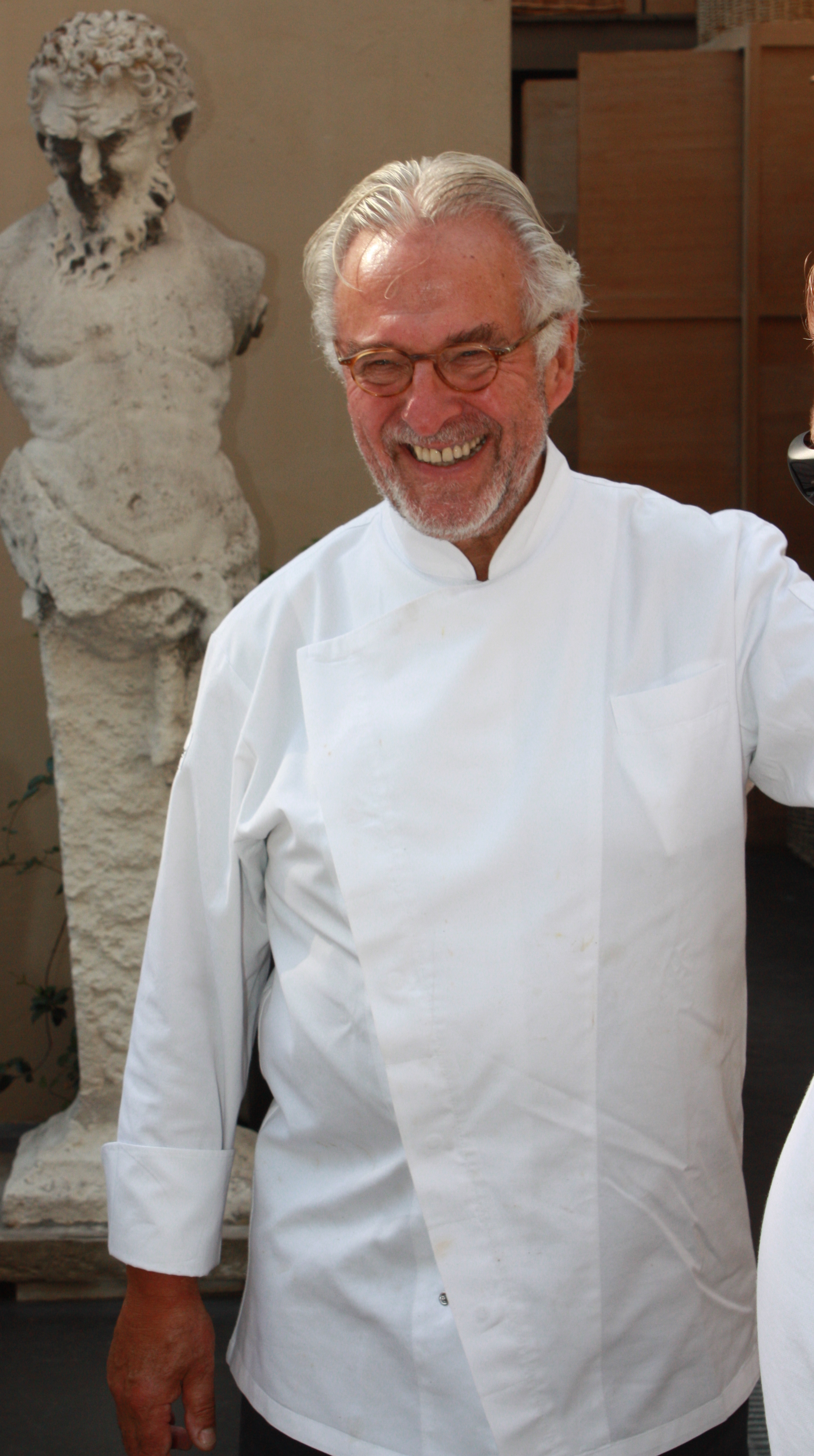 Belgian Master Chef Roger Souvereyns